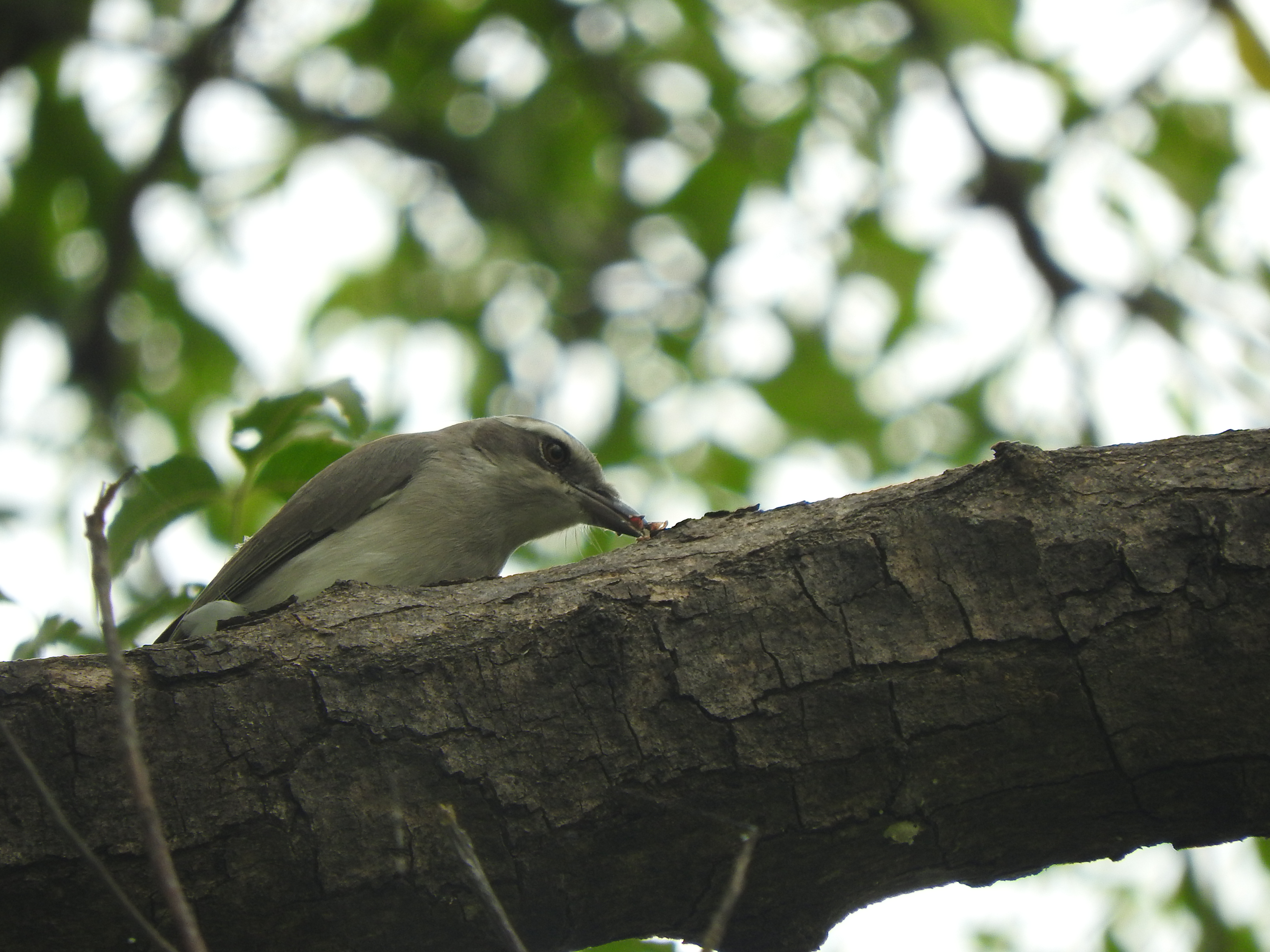 Common Woodshrike seen in Karivalam Vantha Nallur, Thirunelveli District of Tamil Nadu.